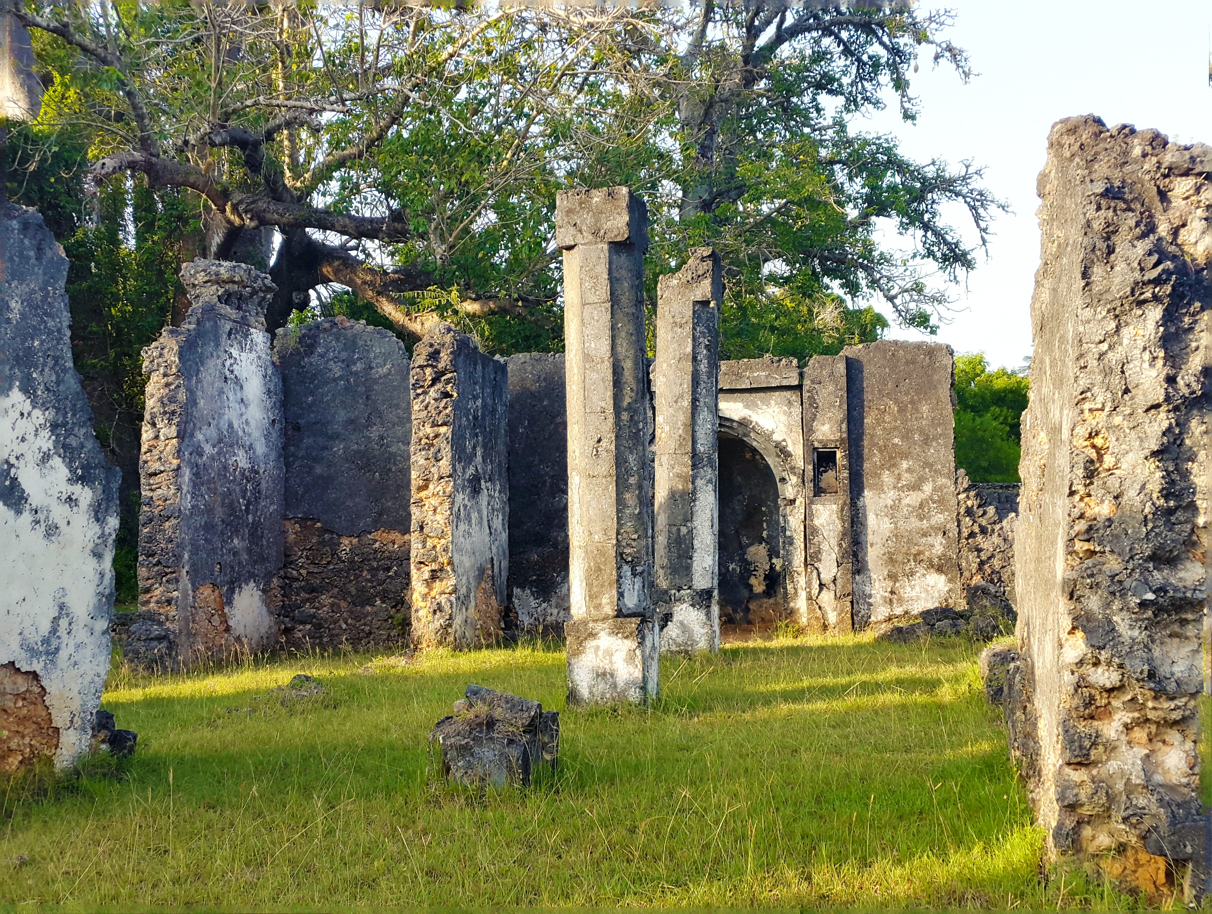 Tongoni_Ruins